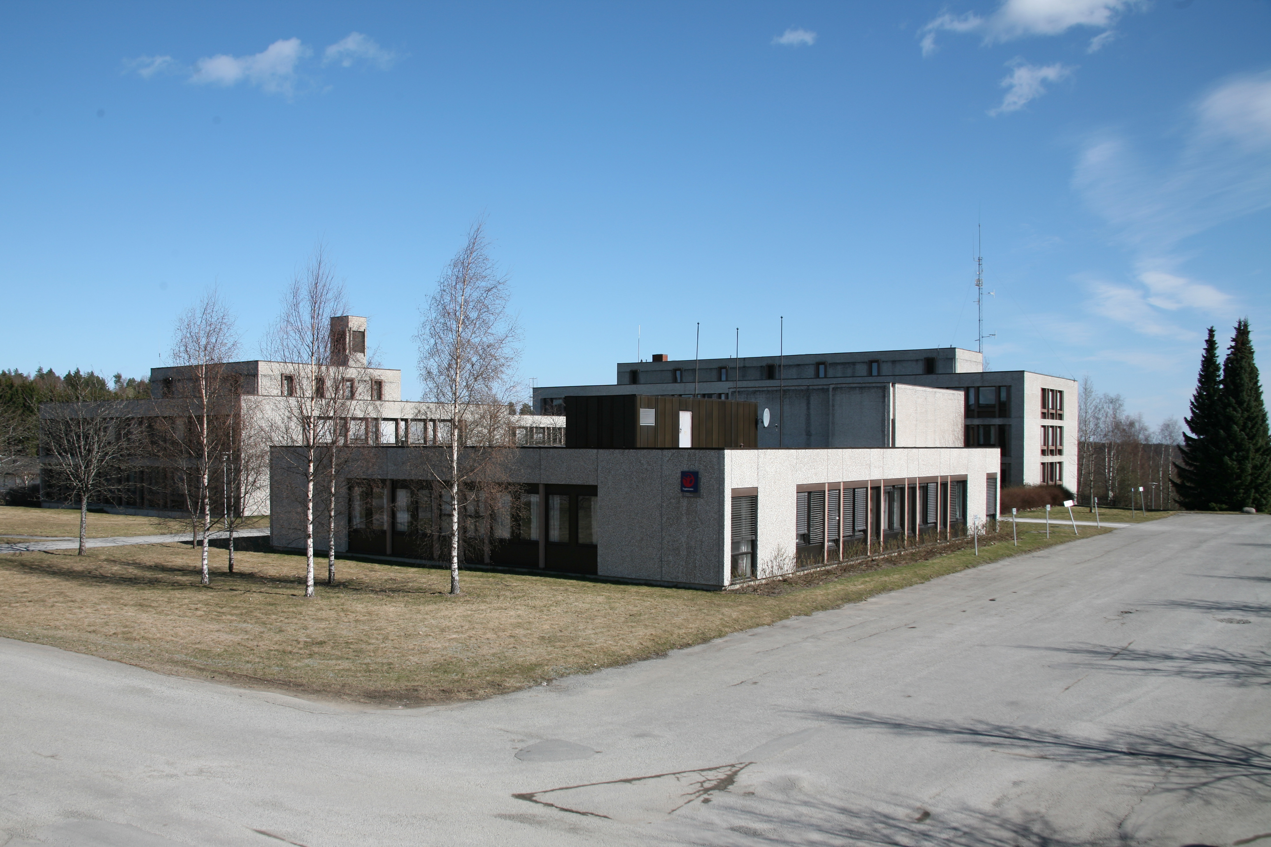 City Hall in Røyken (Buskerud - Norway)